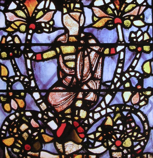 Part of a panel in the Jesse Tree window in York Minster, England. It may be the oldest stained glass in England, circa 1170, or possibly as early as 1150.